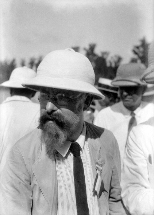 Portrait of W.M. Docters van Leeuwen